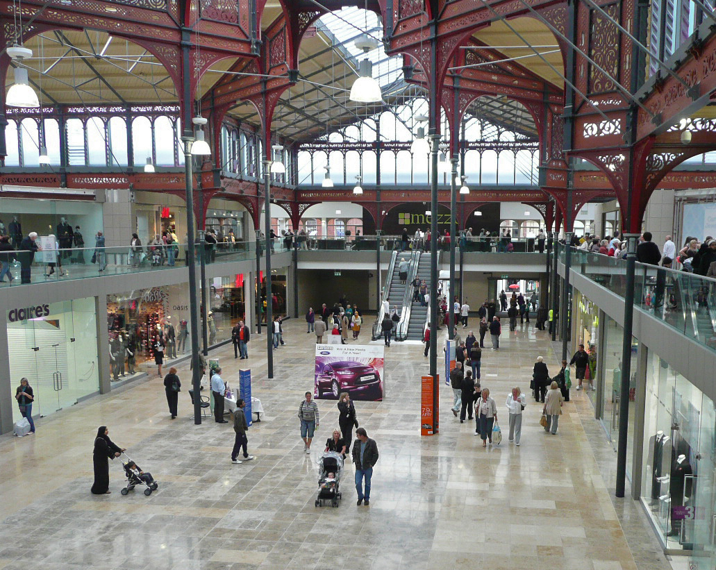 Interior of restored market hall opened in 2008 and designed by van Heyningen and Haward Architects